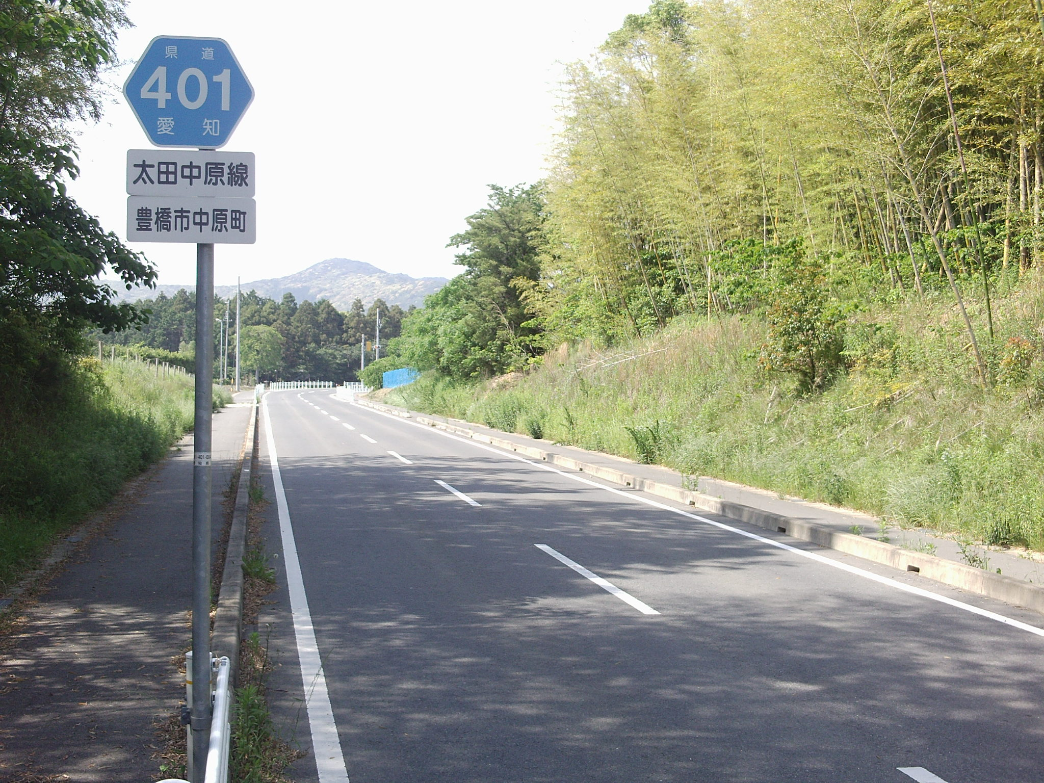 Aichi prefectural road No.401 in Nakaharacho, Toyohashi, Aichi.